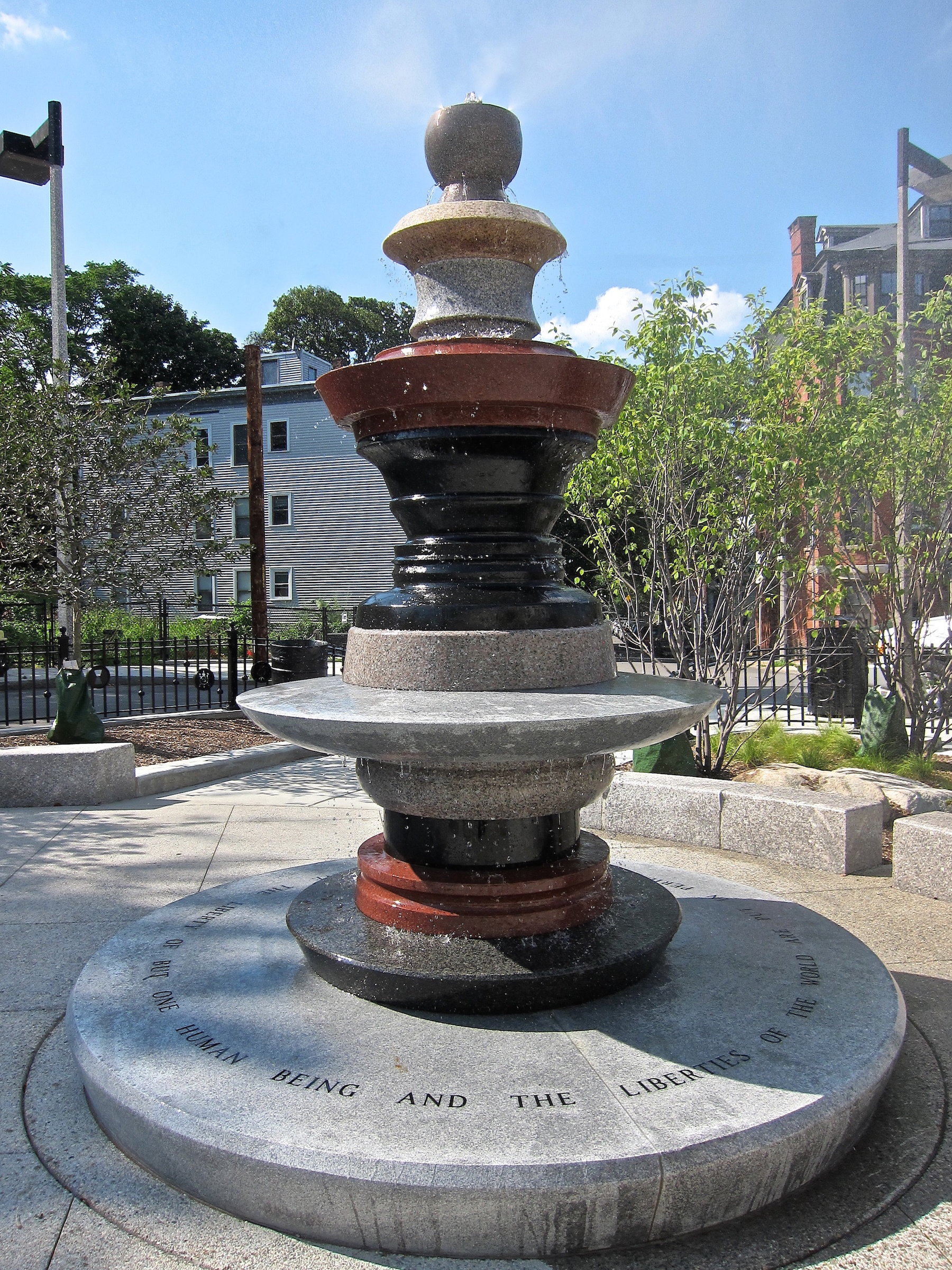 Granite water fountain sculpture features, in black granite, a reverse profile of William Lloyd Garrison, and is surrounded by his quote: "Enslave the liberty of but one human being and the liberties of the world are put in peril". Project artist, Ross Miller